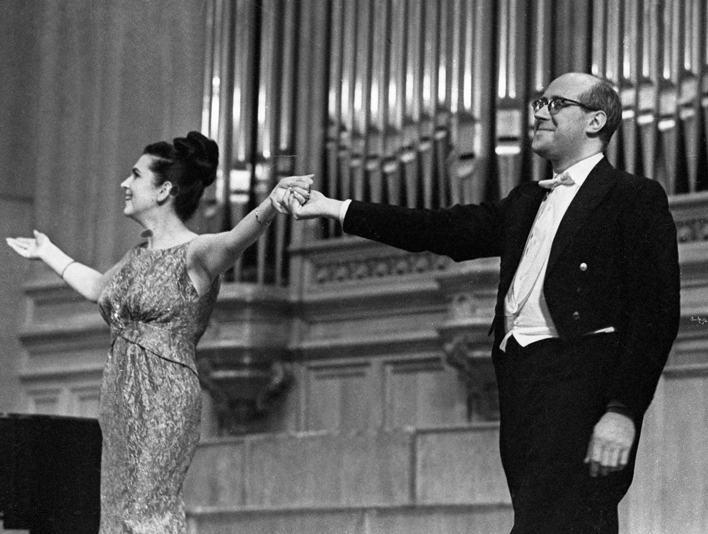 “Mstislav Rostropovich and Galina Vishnevskaya”. Cellist Mstislav Rostropovich (right) and singer Galina Vishnevskaya (left).